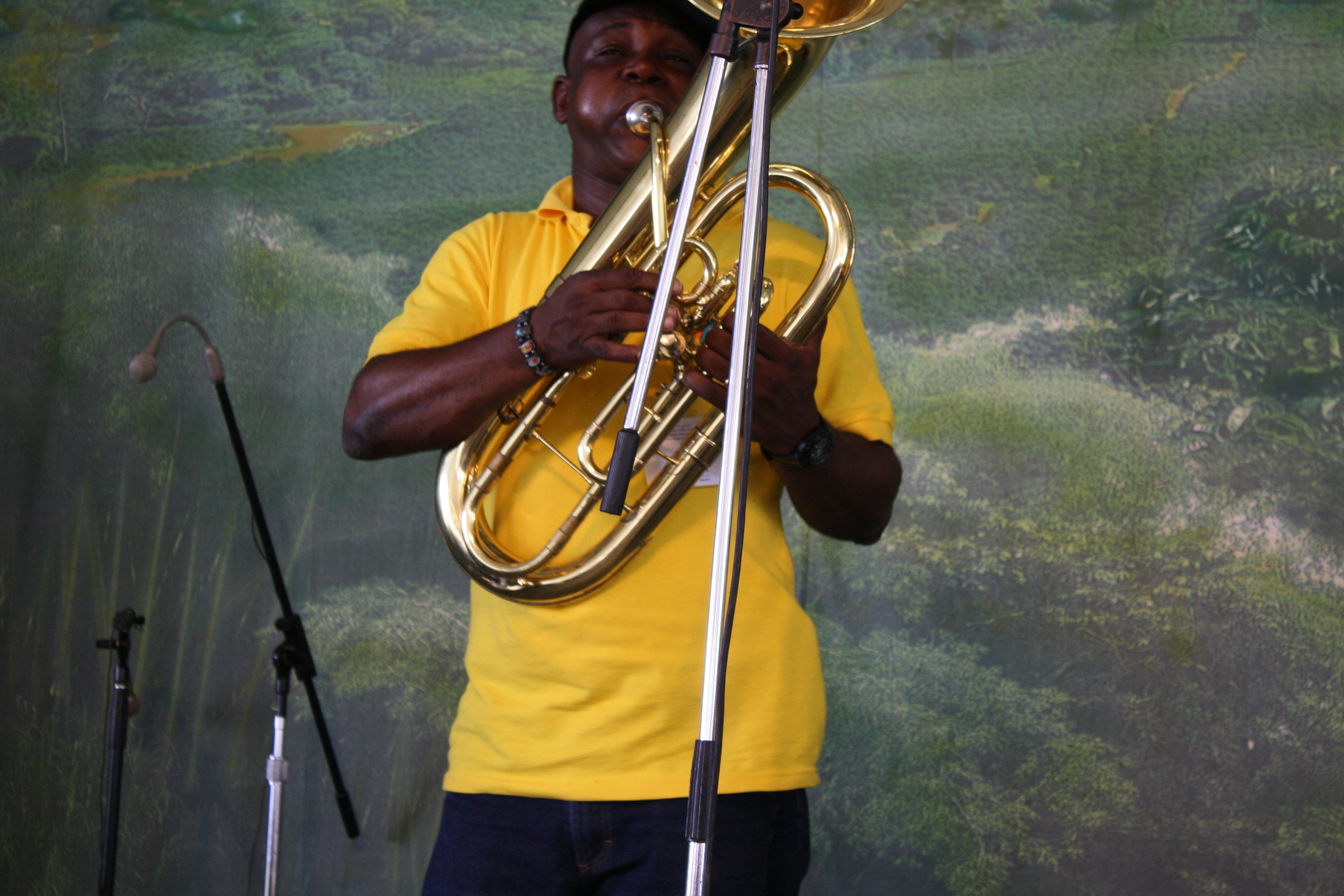 Independence Day . 45th Annual Smithsonian Folklife Festival . National Mall . Washington DC . Monday afternoon, 4 July 2011 . Elvert Barnes Photography Columbia / The Nature In Culture Chirimía La Contundencia, chirimía music group, Quibdó Al Son Que Me Toquen Stage 3:30 - 4:15 pm set Visit Smithsonian Folklife Festival at Visit Elvert Barnes 45th Smithsonian Folklife Festival 2011 docu-project at